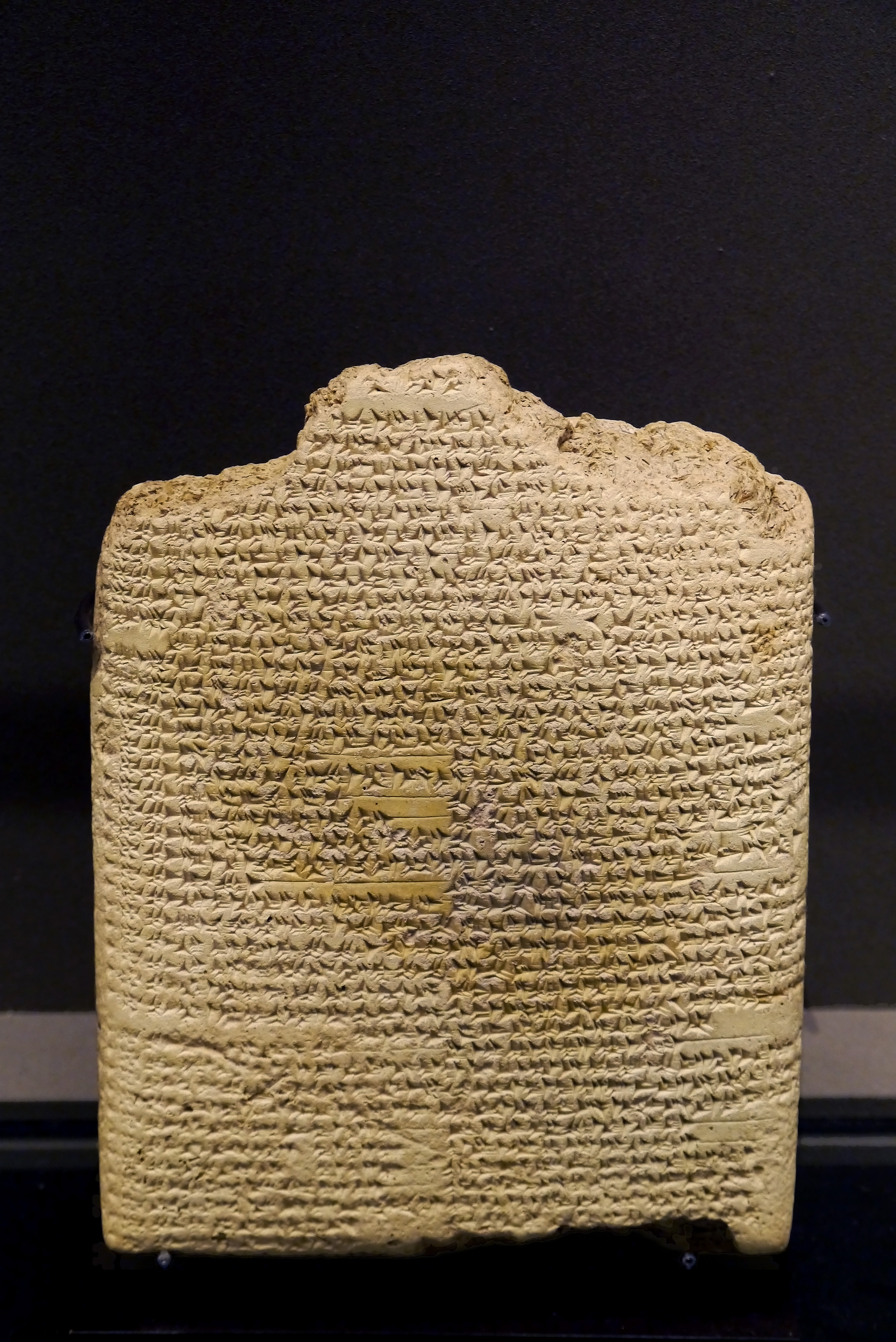 Divination text. Clay, 2nd millennium BC. From Iraq, ancient Mesopotamia.